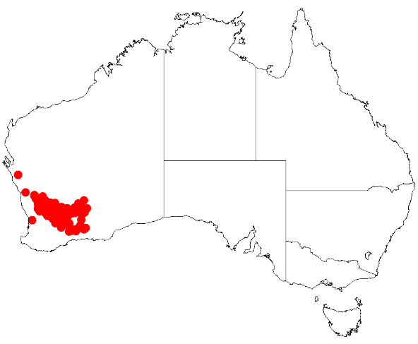 Acacia yorkrakinensis Occurrence data from Australasia Virtual Herbarium downloaded from on 8 December 2018